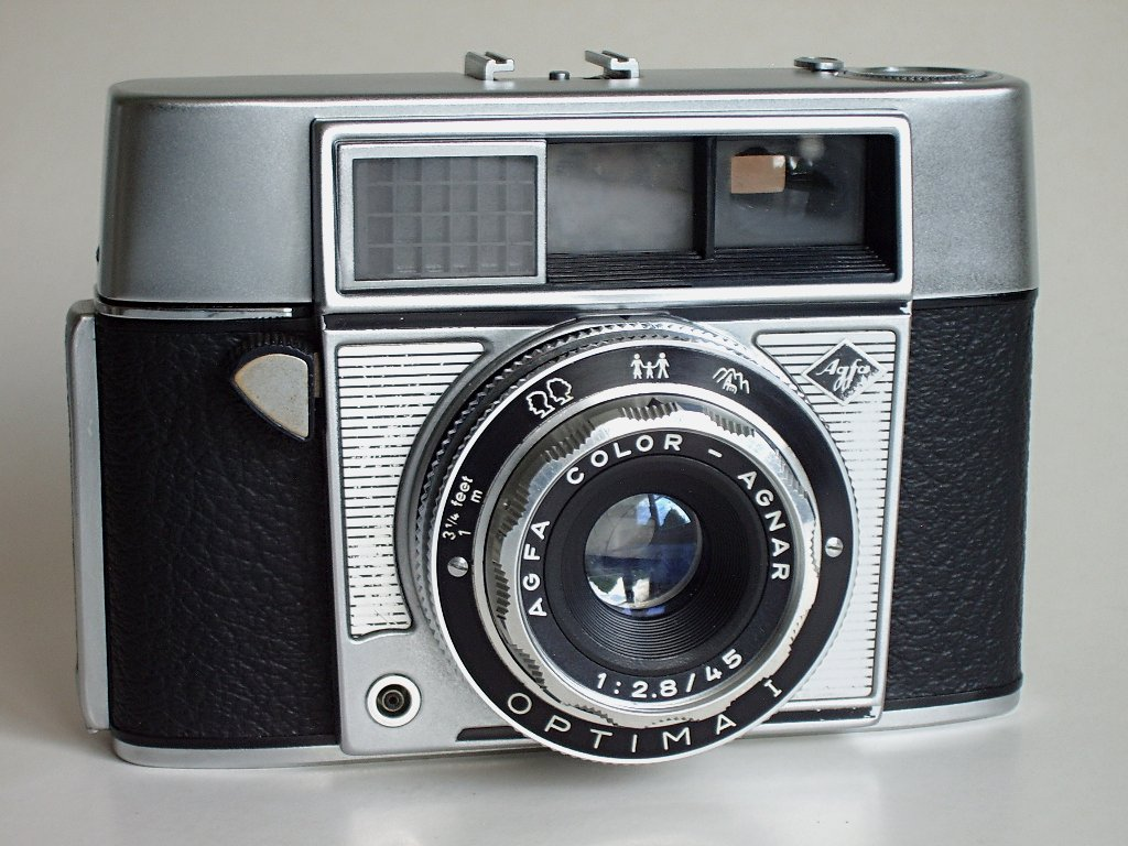 Agfa Optima-I camera. 35mm camera with automatic-exposure.